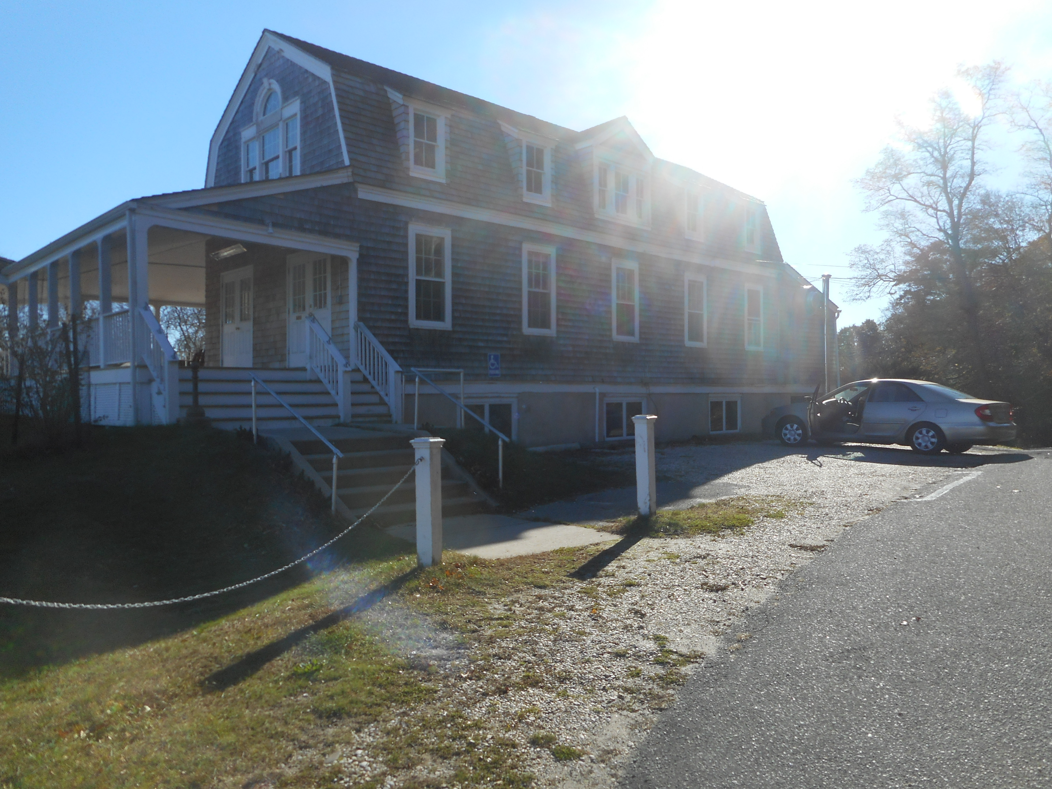 The Flying Goat Restaurant at the Shelter Island Golf Course and Country Club in Shelter Island Heights, New York. On the National Register of Historic Places.